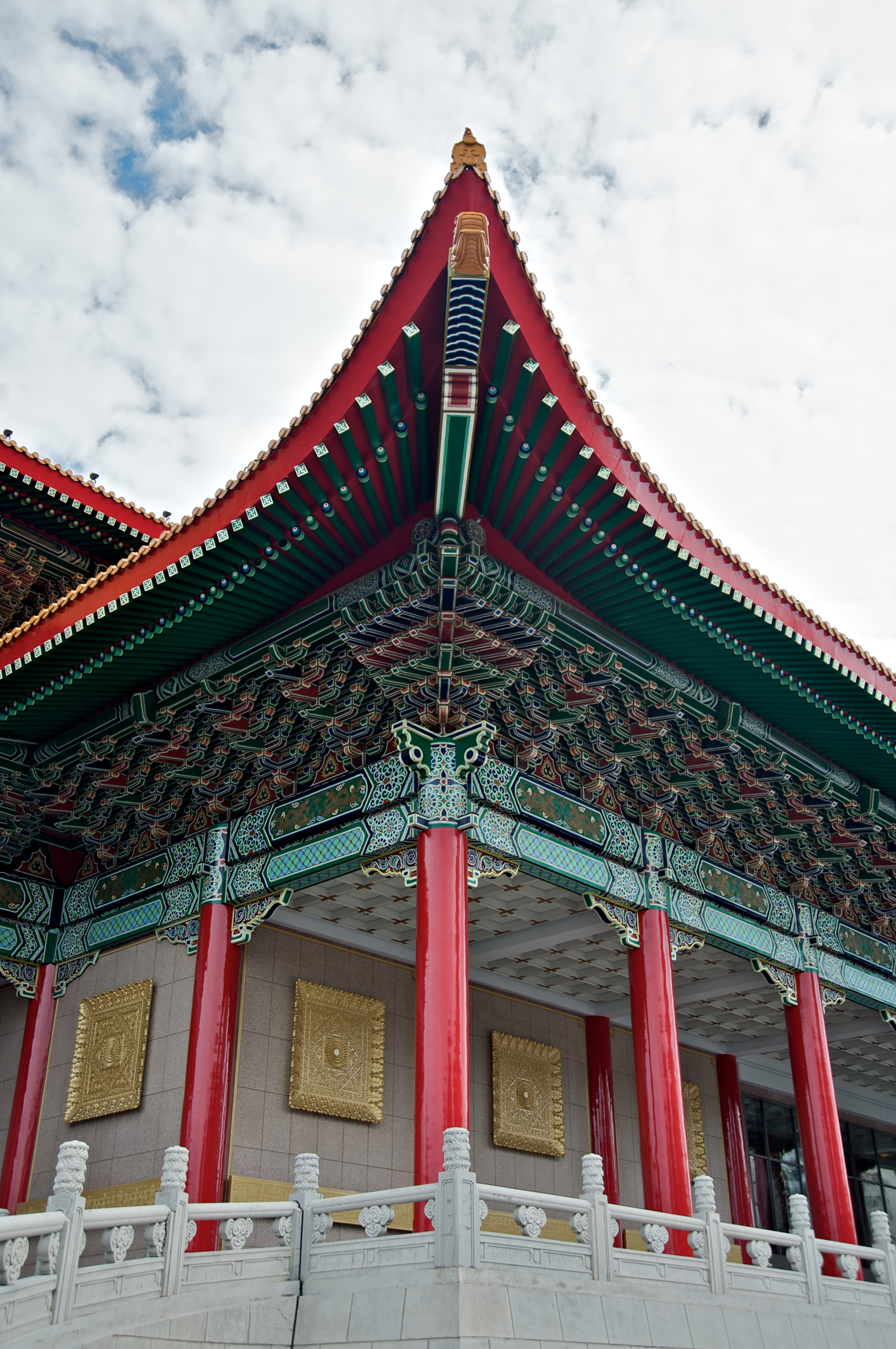 National Theater at the Liberty Square in Taipei, Taiwan, showcasing traditional Chinese architecture elements, including roofing, interlocking wooden brackets (dougong) and columns.